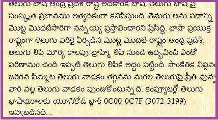 picture for cia(continuous internal asessment).